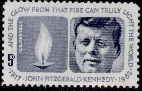 The 5 cent stamp is the memorial stamp for President John F. Kennedy (1917-1963). It was issued May 29, 1964 on what would have been his 47th birthday, with a first day of issue cancellation in his hometown of Boston, Massachusetts. His inaugural address on January 20, 1961 "... And the glow from that fire can truly light the world.", along with Kennedy's full name and the years of his birth and death. The eternal flame and the Portrait of John F. Kennedy in 1958, from the picture.